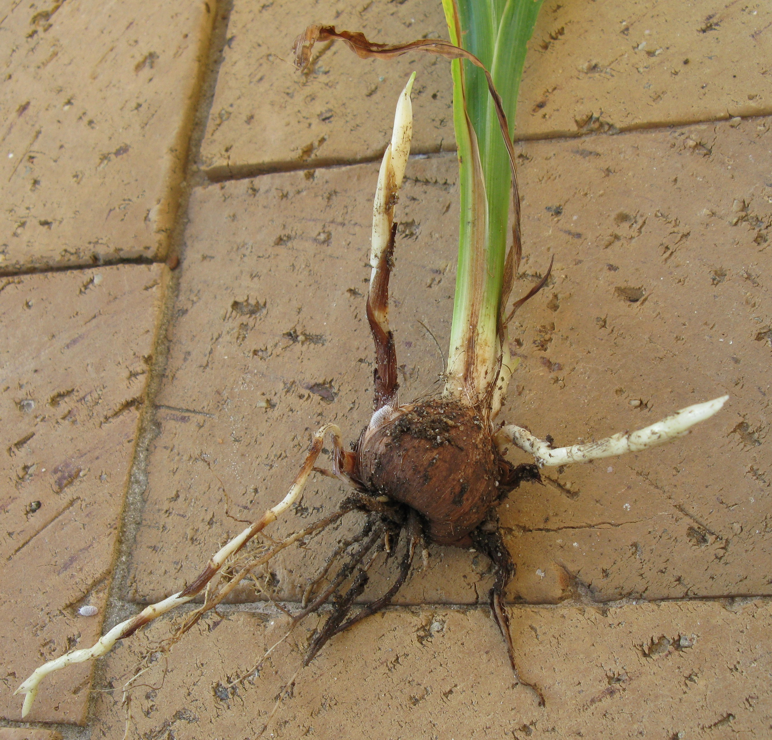 Stolons growing from nodes in corm of Crocosmia. Notice the sap-sucking "mealybugs" on the corm and on the ground. Pseudococcidae. Probably Pseudococcus species.